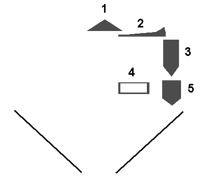 Sheme of multihead weight working